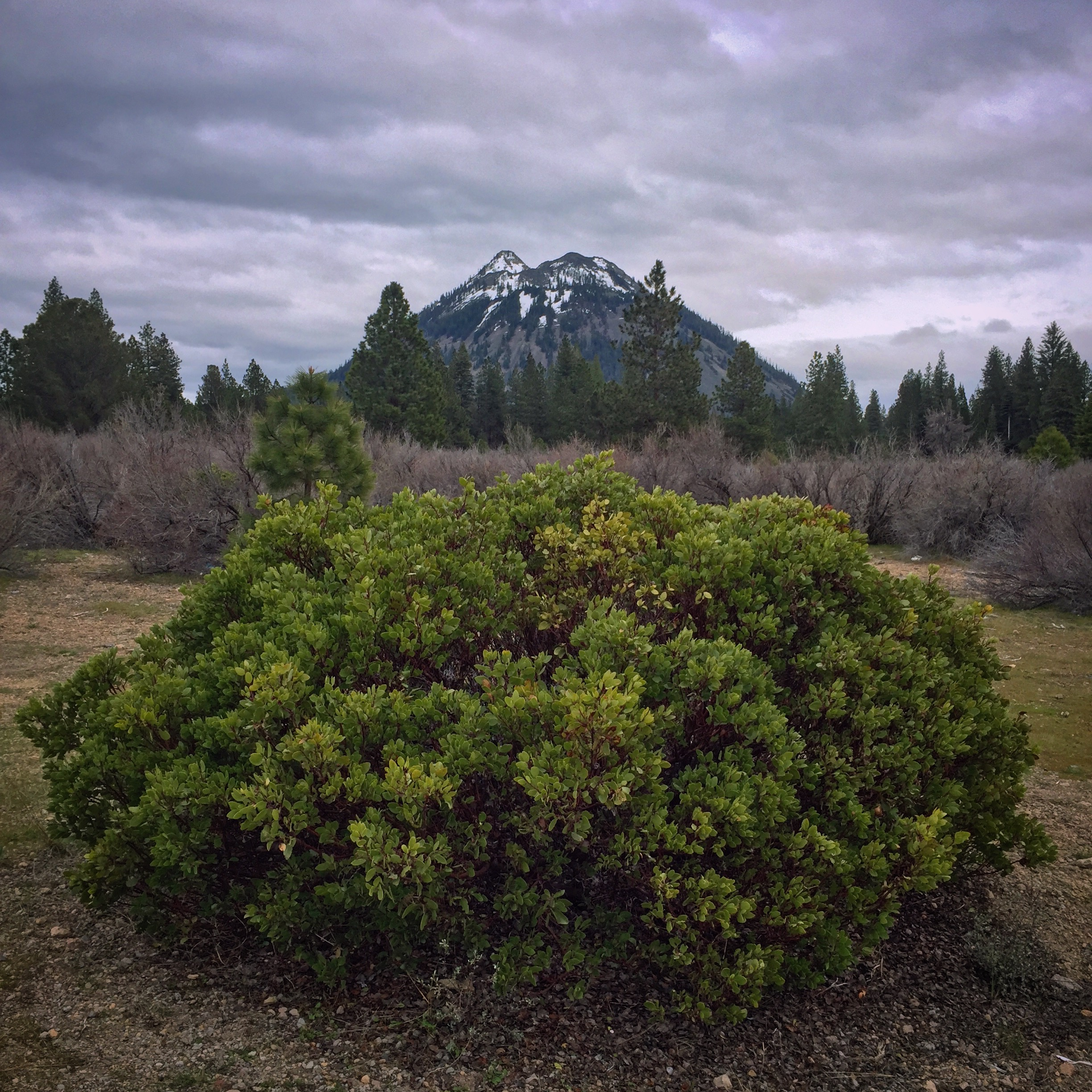 Arctostaphylos patula (Green leaf Manzanita) at the base of Black Butte a volcanic vent of Mount Shasta